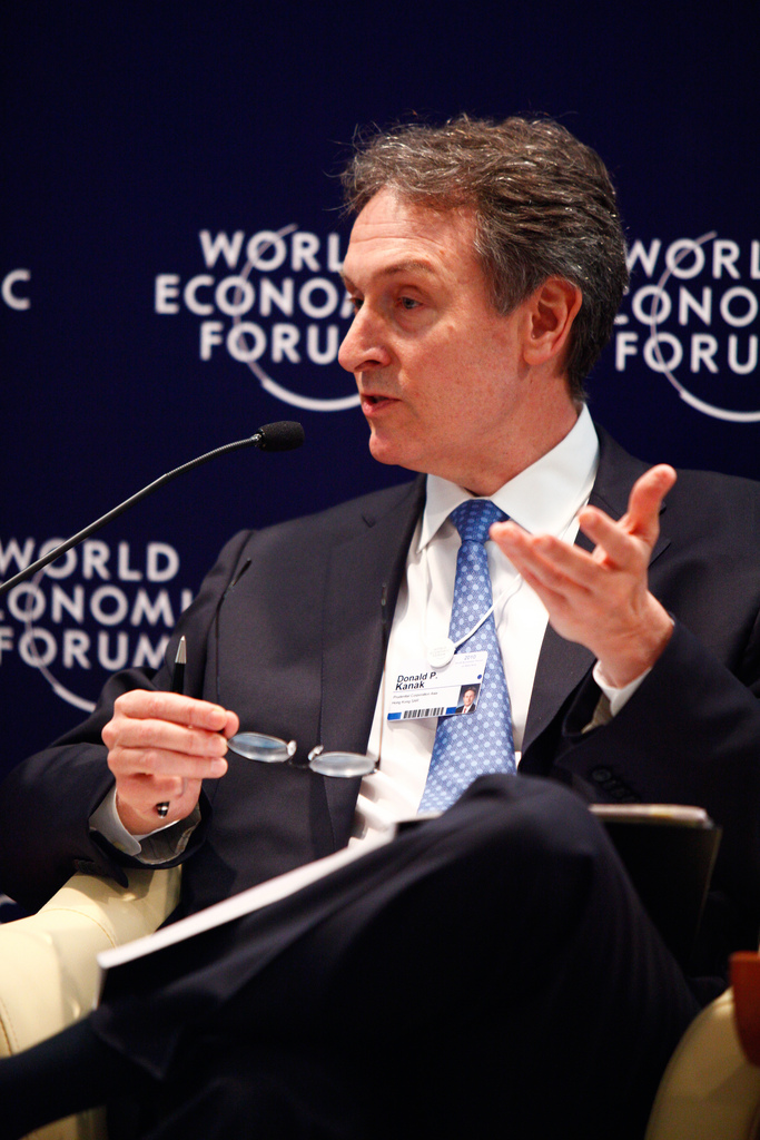 Donald P. Kanak, Chairman, Prudential Corporation Asia, Hong Kong SAR captured during the World Economic Forum on East Asia in Ho Chi Minch City, Vietnam, June 7, 2010.